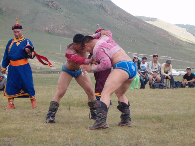 Burumbators (mongolian warriors) on the traditional Naadam festival in Mongolia, near Ulan Bator.